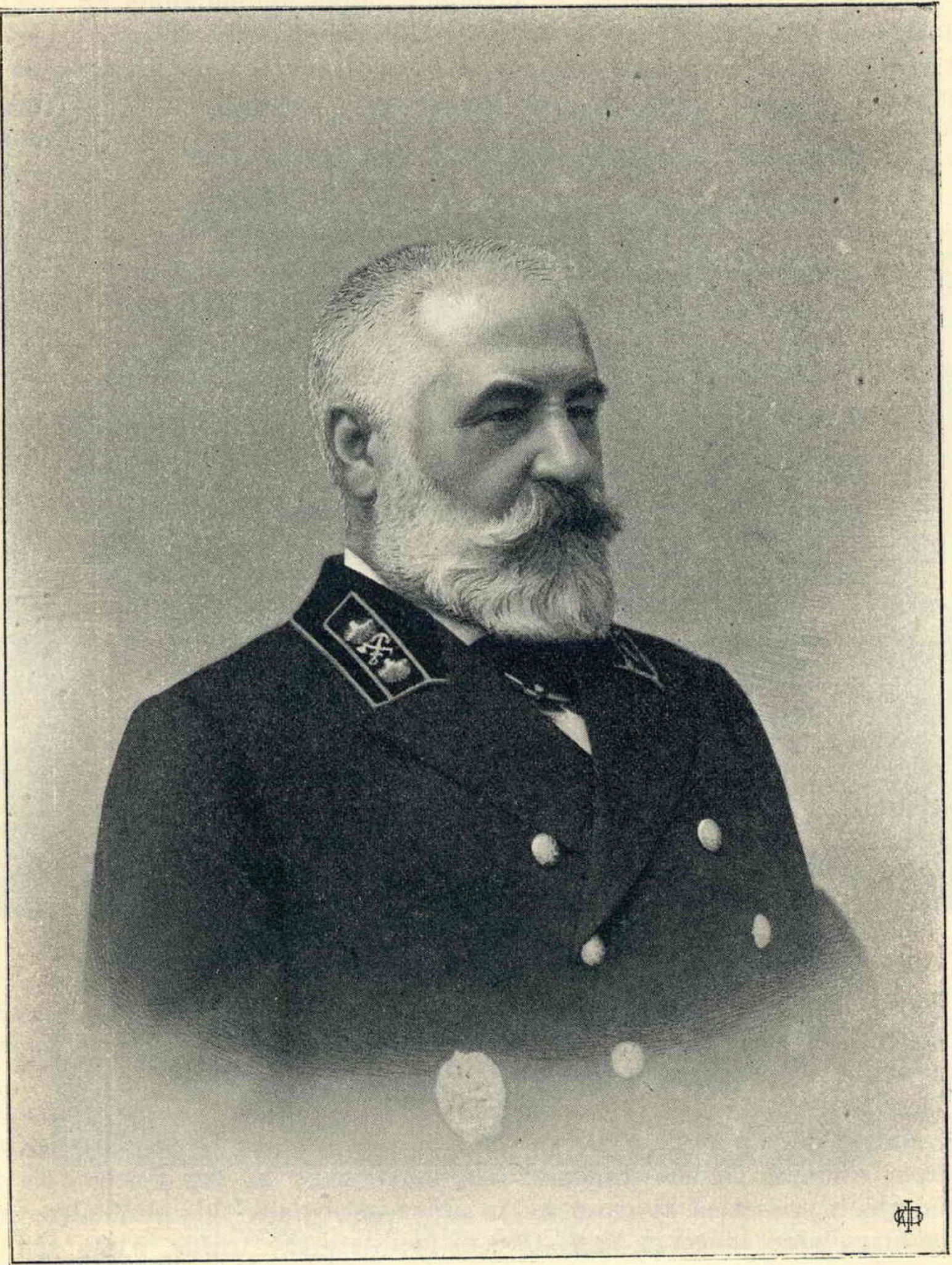 Active State Counselor Engineer Viazemsky O.P., constructor of the Ussury Railway. Illustration from the book "Guide to the Creat Siberian Railway". 1900